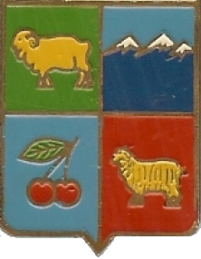 Symbol of Kalbajar, town in Azerbaijan.